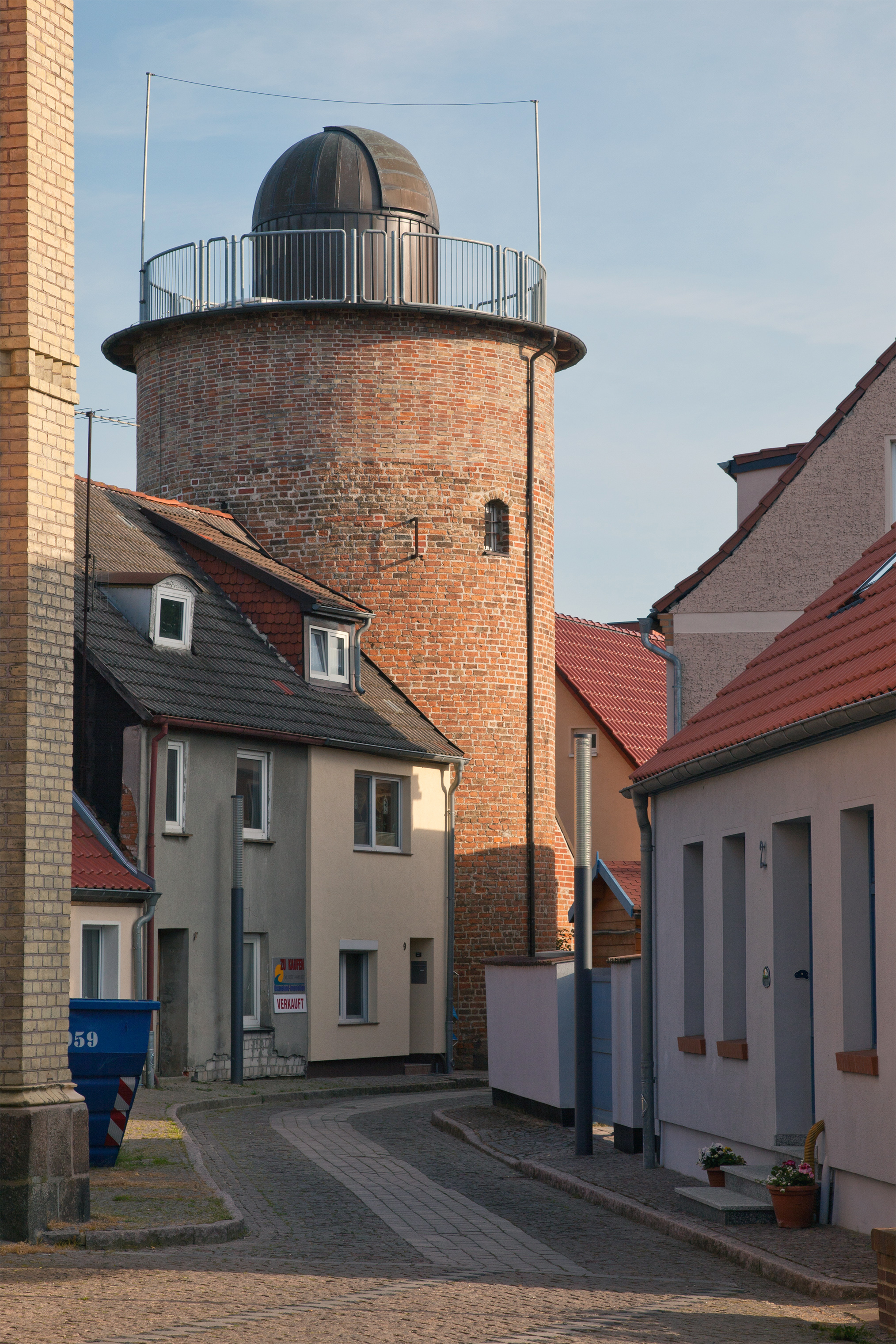 Barth, "Fangelturm", fortified tower, now observatory